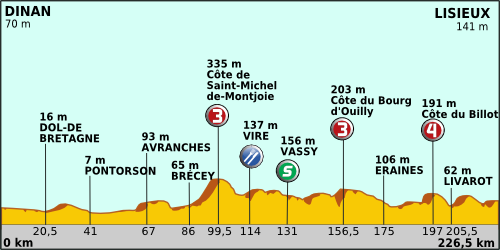 Profile of the 6th stage of the 2011 Tour de France.